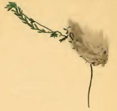 Stainton’s Natural History of the Tineina (1855–1873): Glyphipterix haworthana a head of Eriophorum vaginatum tenanted by the larva and attached to a stem of Erica